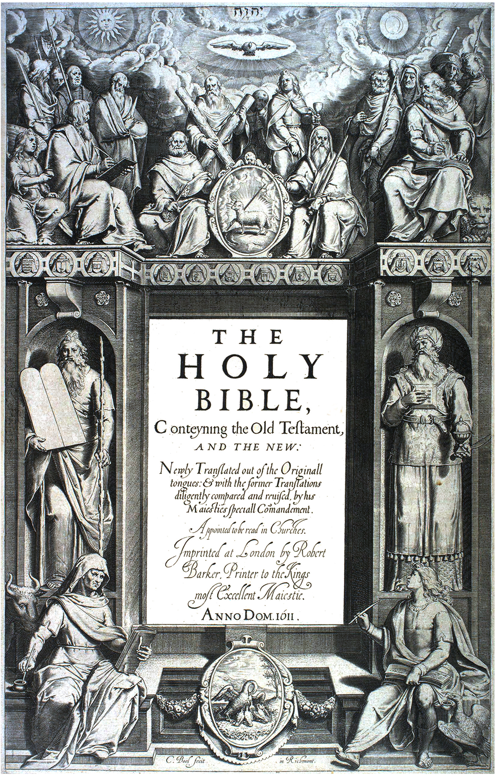 Frontispiece to the King James' Bible, 1611, shows the Twelve Apostles at the top. Moses and Aaron flank the central text. In the four corners sit Matthew, Mark, Luke, and John, authors of the four gospels, with their symbolic animals. At the top, over the Holy Spirit in a form of a dove, is the Tetragrammaton "יהוה" ("YHWH"). The title page text reads:THE HOLY BIBLE,Conteyning the Old Teſtament,AND THE NEW:Newly Tranſlated out of the Originall tongues: & with the former Tranſlations diligently compared and reuiſed, by his Maiesties speciall Comandement.Appointed to be read in Churches.Imprinted at London by Robert Barker, Printer to the Kings moſt Excellent Maiestie.ANNO DOM. 1611 . At bottom is "C. Boel ſecit in Richmont."